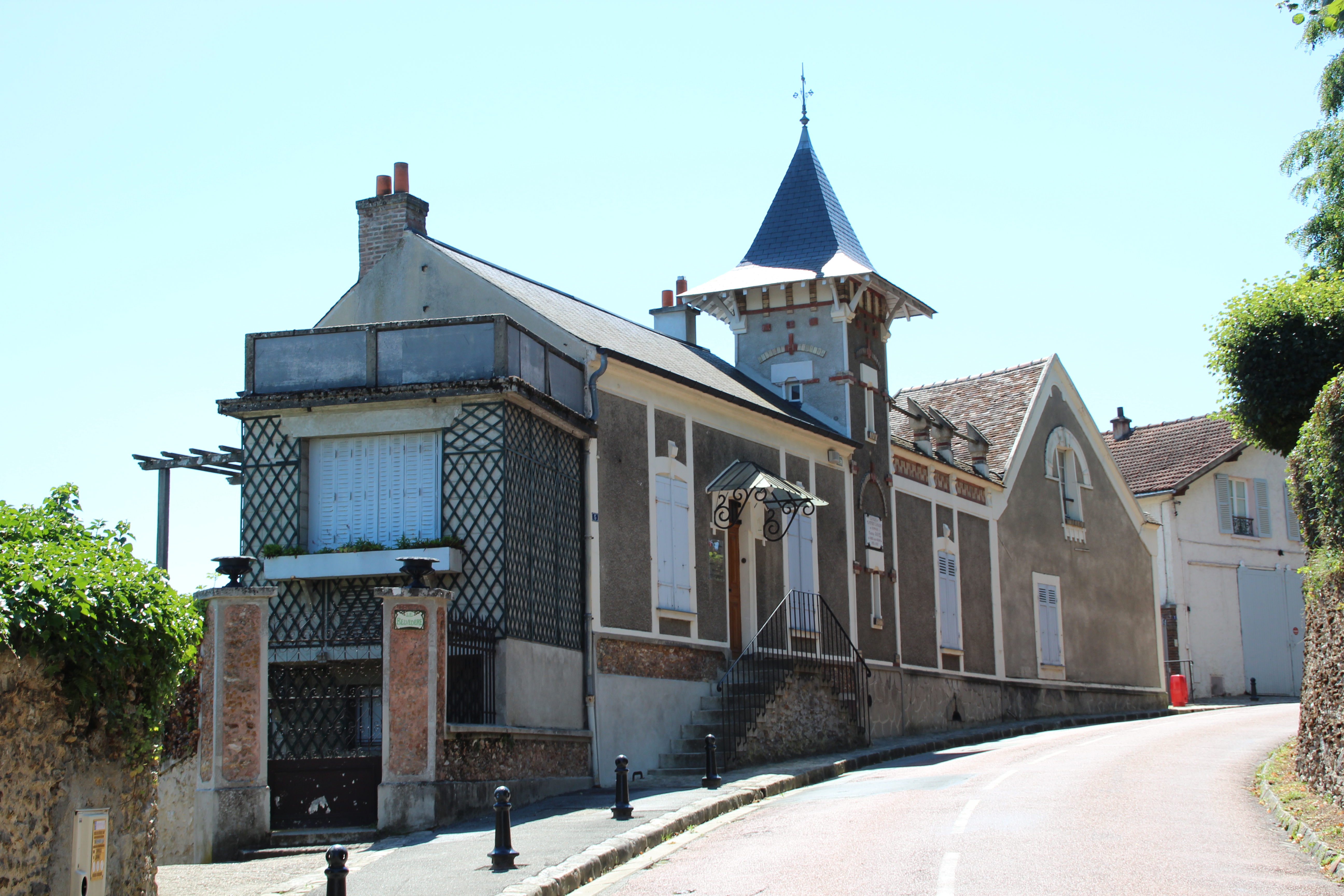 House of Maurice Ravel in Montfort-l'Amaury, France. . Object location48° 46′ 34.28″ N, 1° 48′ 19.4″ E